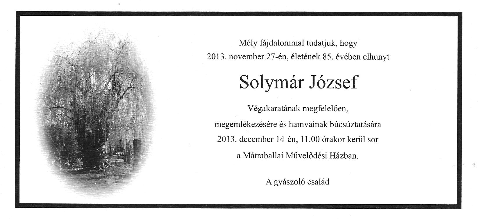 Solymár József gyászjelentése